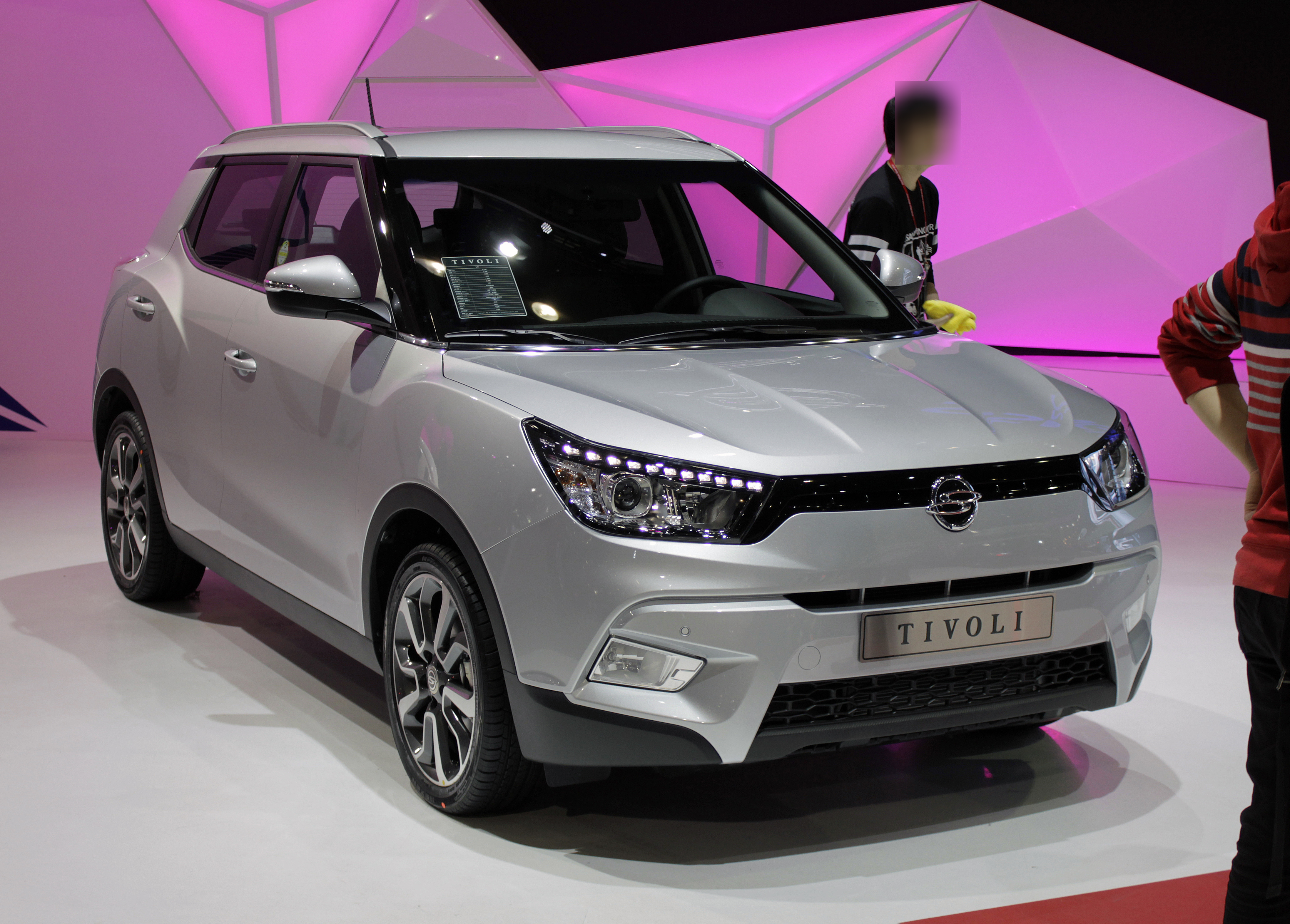 at Seoul Motor Show 2015